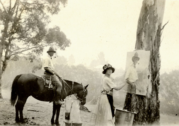 Artist Hilda Rix Nicholas painting her work "In Australia" in 1922 or 23